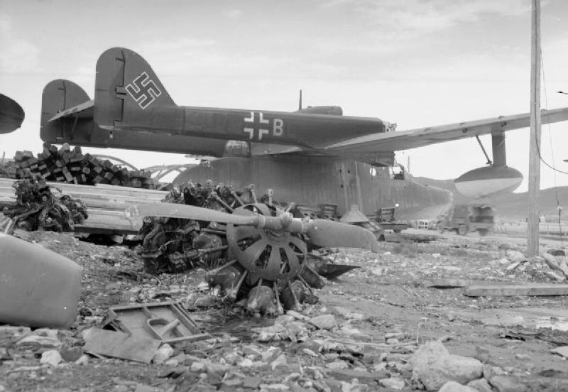 An abandoned German Blohm & Voss Bv 138C reconnaissance seaplane at Tromsø in Norway, 1945.